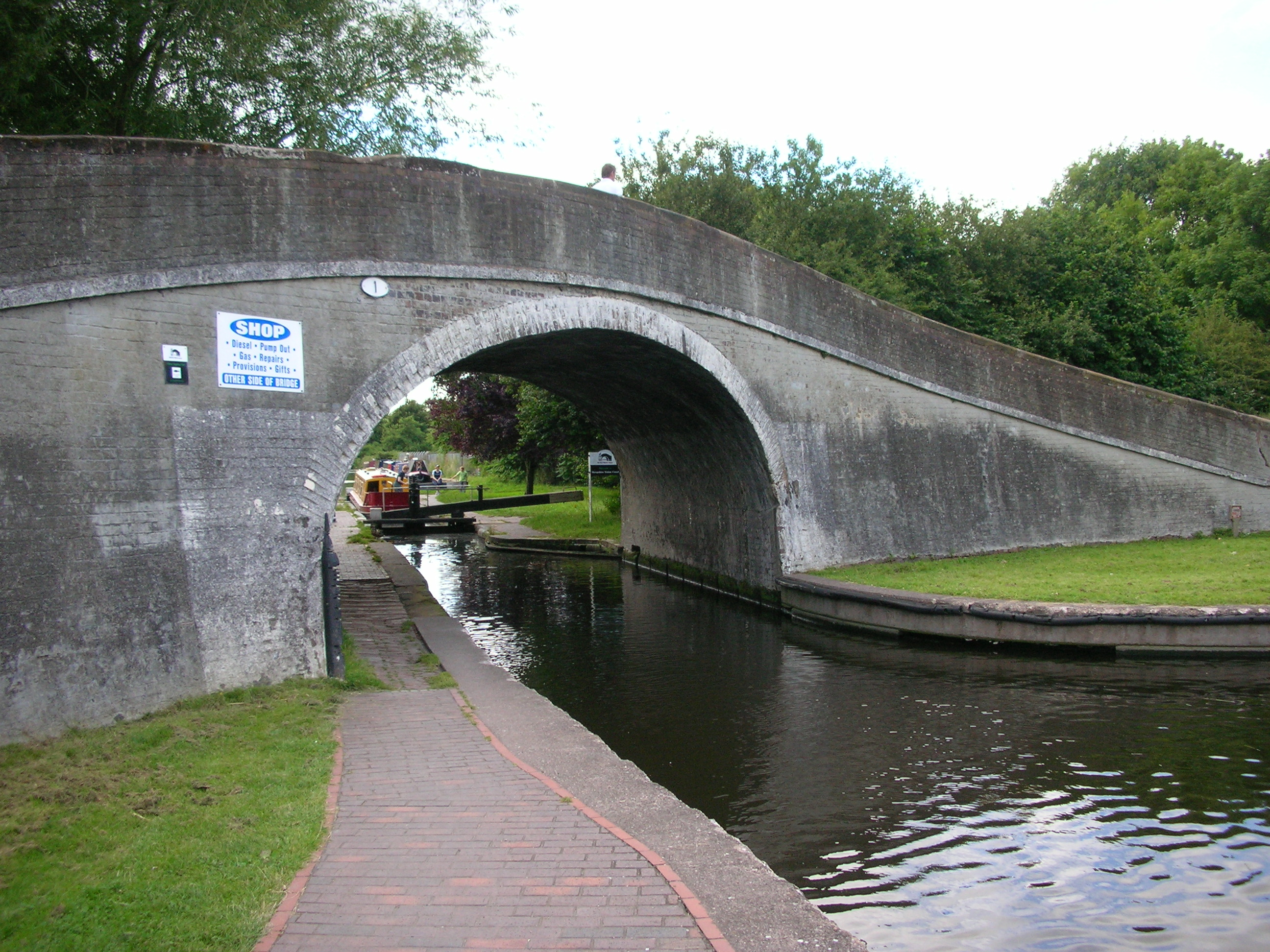 Autherley Junction, where the Shropshire Union Canal terminates and meets the Staffordshire and Worcestershire Canal near to Oxley, north Wolverhampton, West Midlands, England. Through the roving bridge a narrowboat is in the stop lock. Photographed by me 4 August 2007. Oosoom